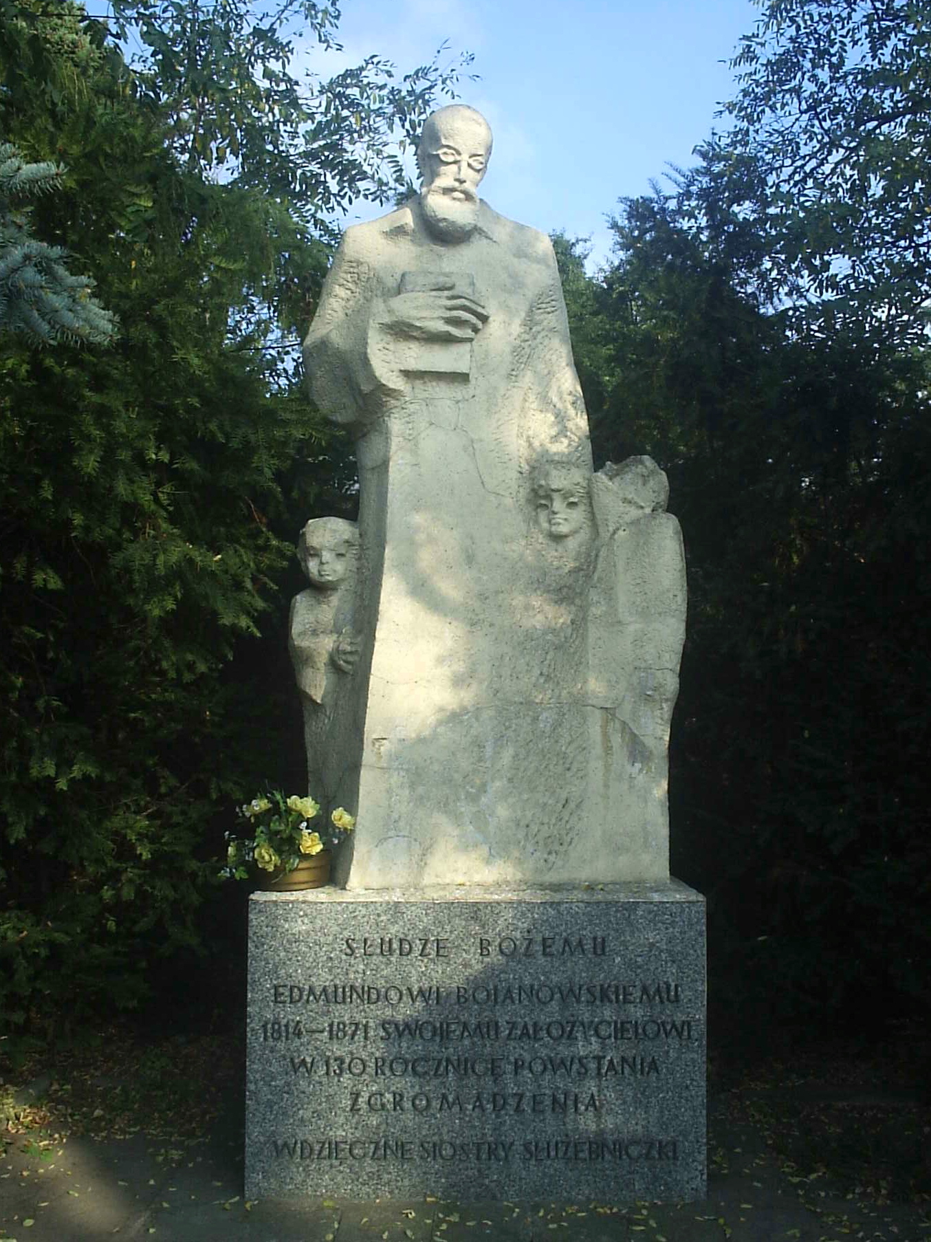 Edmund Bojanowski - the Monastery of Congregation of St. Philip Neri's Oratory on the Holy Hill - Głogówko near Gostyń, Poland